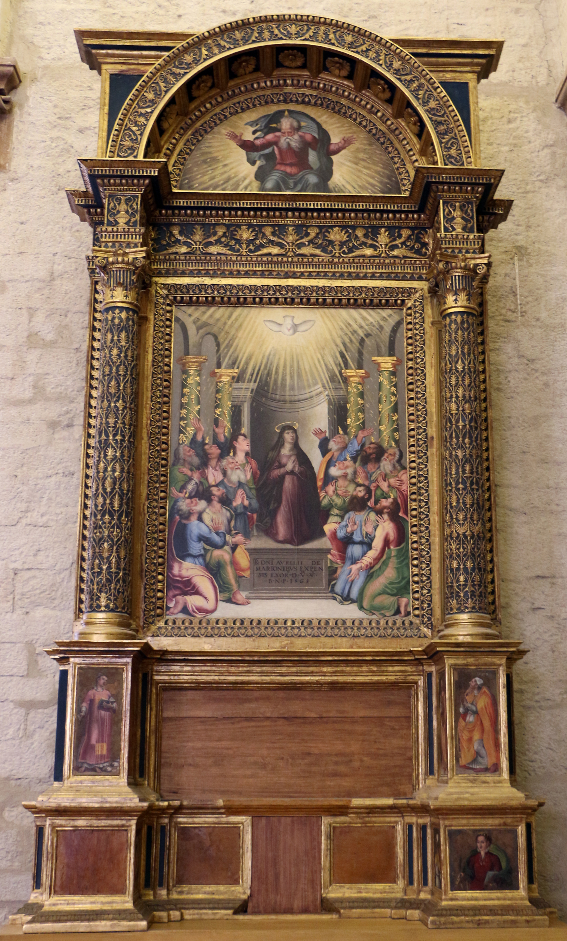 Paintings in the Museo Civico (Gubbio)